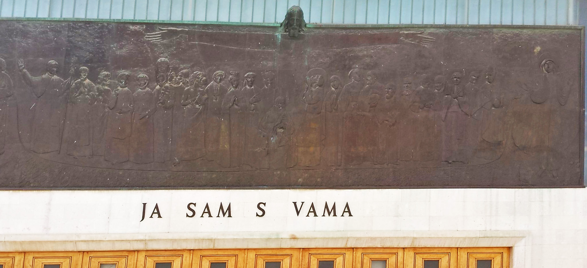 Co-cathedral St. Peter Split Croatia, Exterior